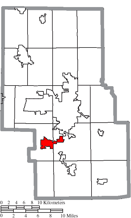 Map of the municipal and township boundaries of Richland County, Ohio, United States, as of the 2000 census, with the location of the village of Lexington highlighted. Township borders are shown only in unincorporated areas in order to differentiate incorporated and unincorporated areas more clearly.